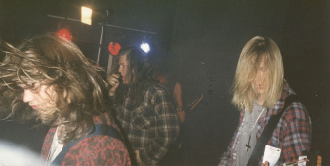 Amorphis live 23. elokuuta '91 playing a cover of an Abhorrence tune with Jukka on vocals in Oulu, Finland.